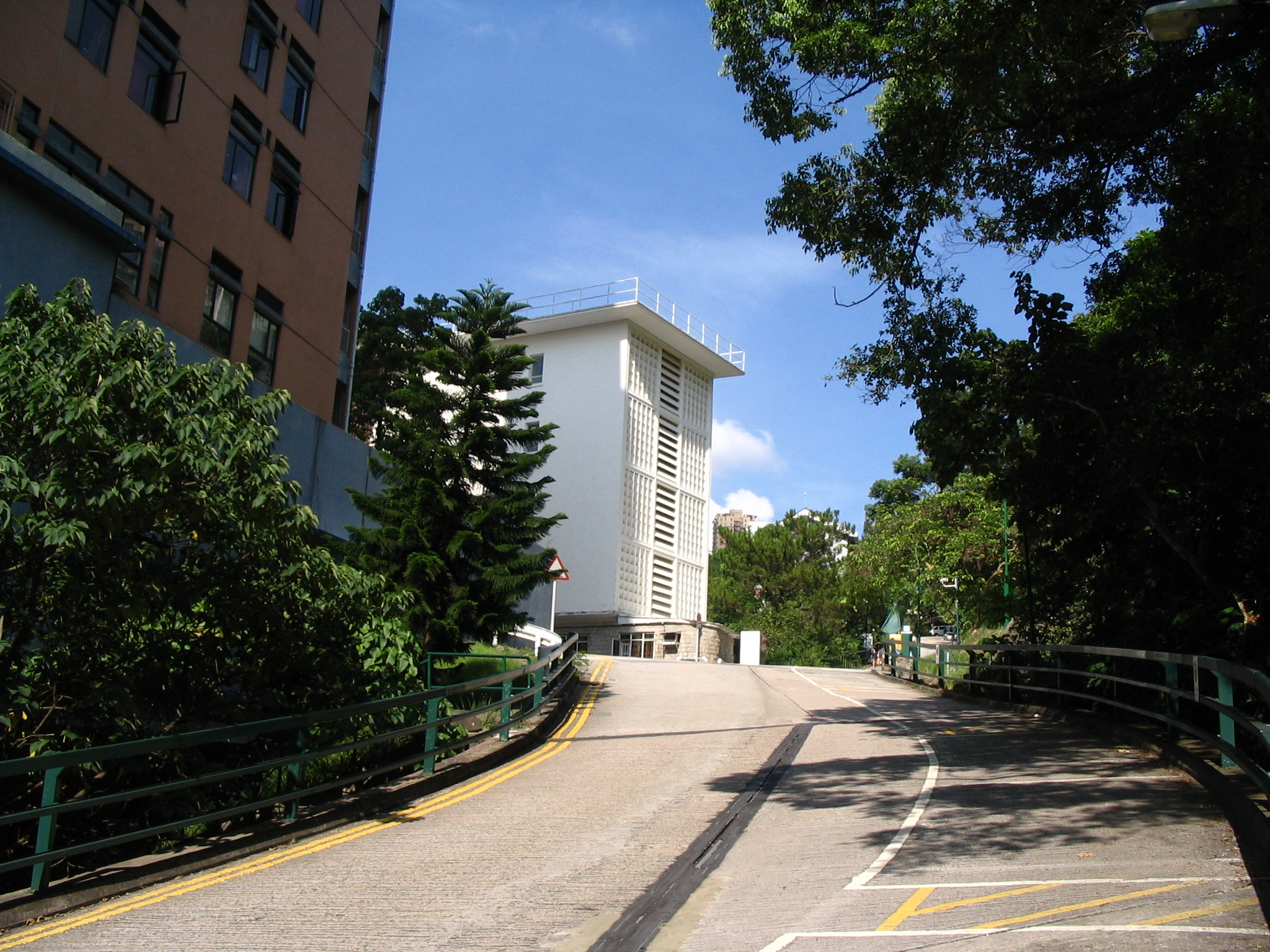 Photo of University Drive